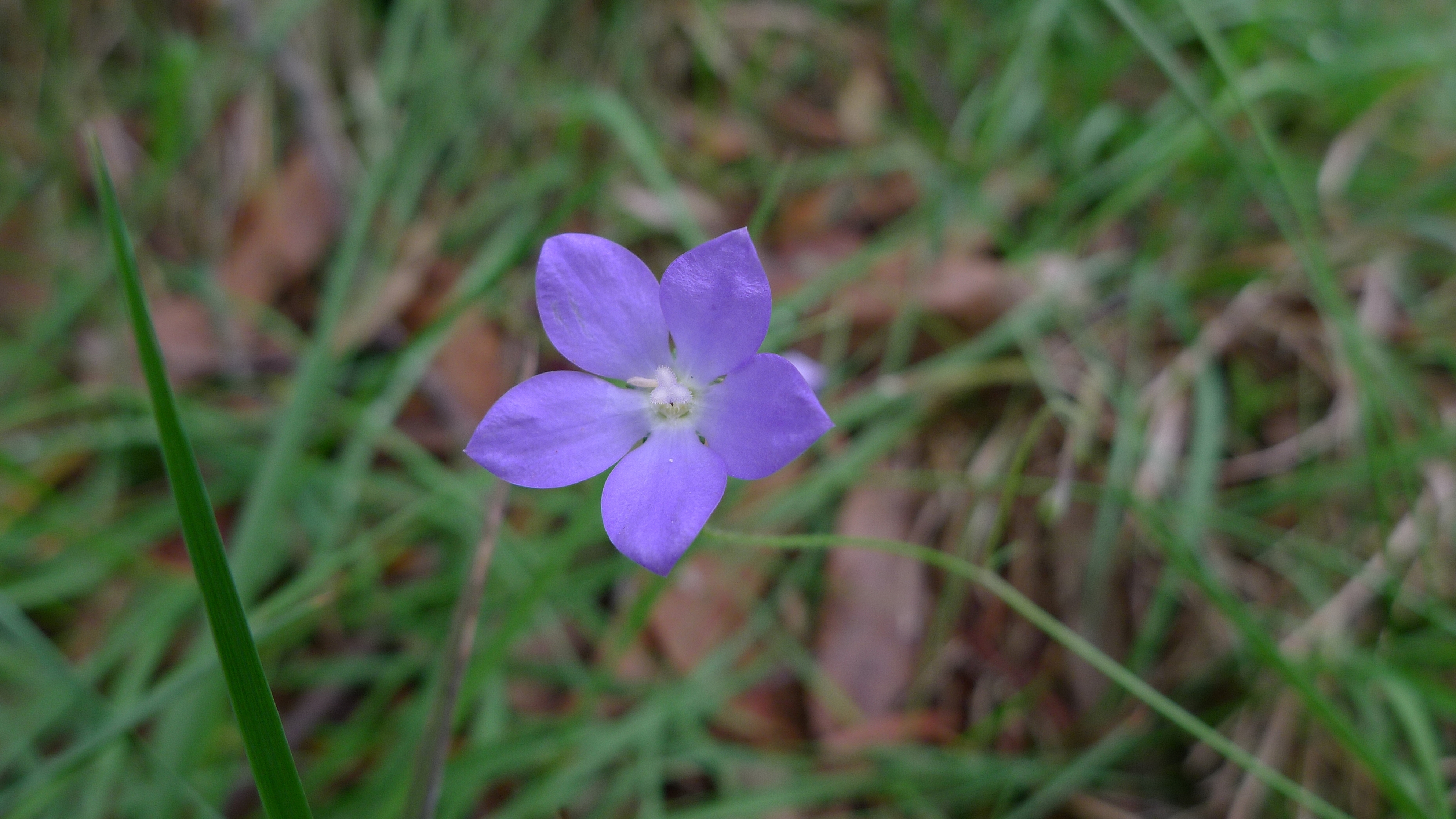 Hairy Annual Bluebell, Wahlenbergia gracilenta. Tia Falls, Oxley Wild Rivers National Park, NSW Australia, April 2013.